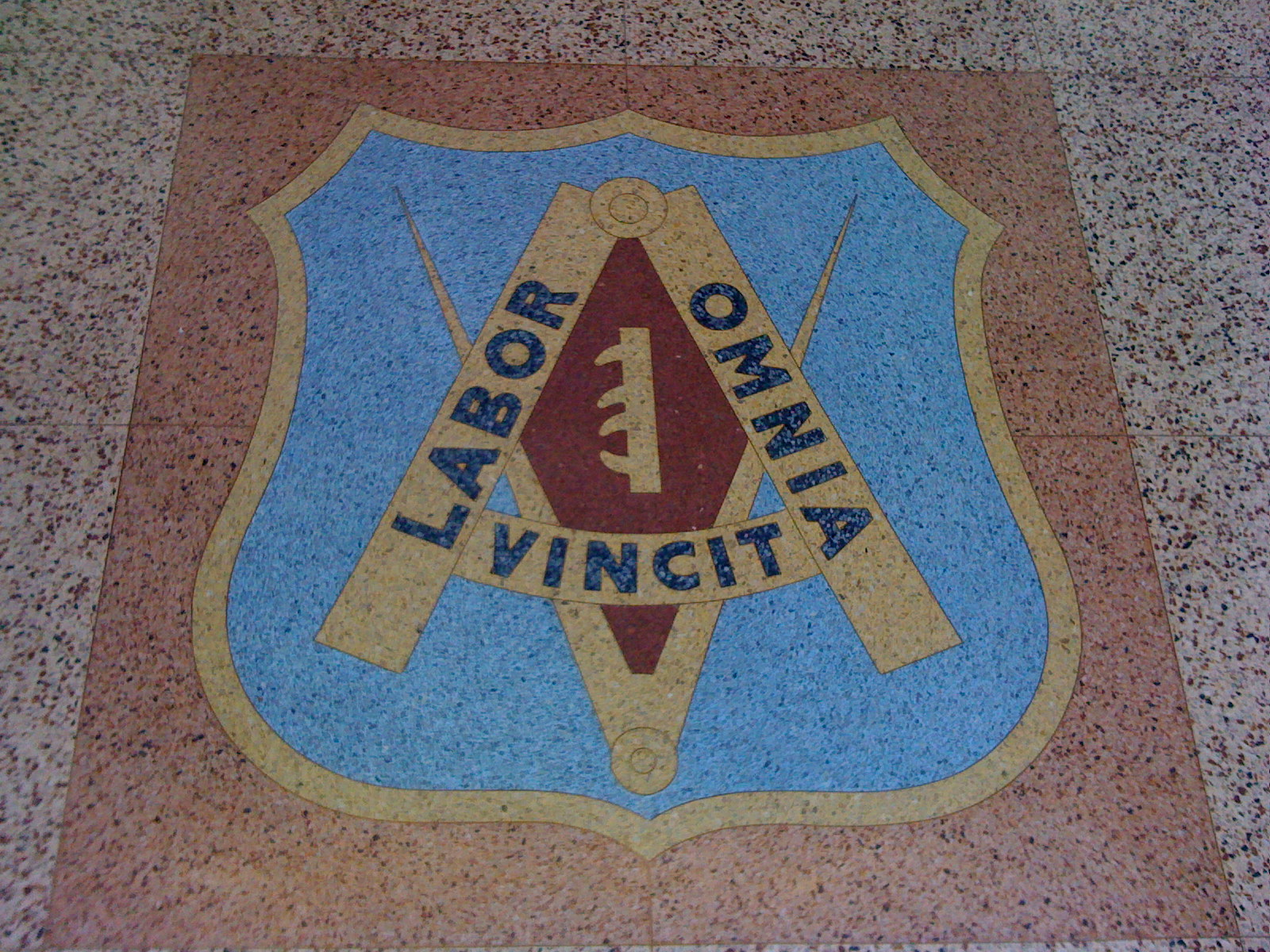 "Hard work conquers all"